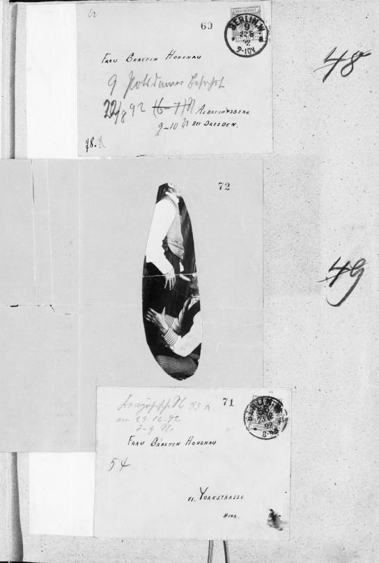 Original letters of the Kotze Affair from the Geheimes Staatsarchiv Preußischer Kulturbesitz